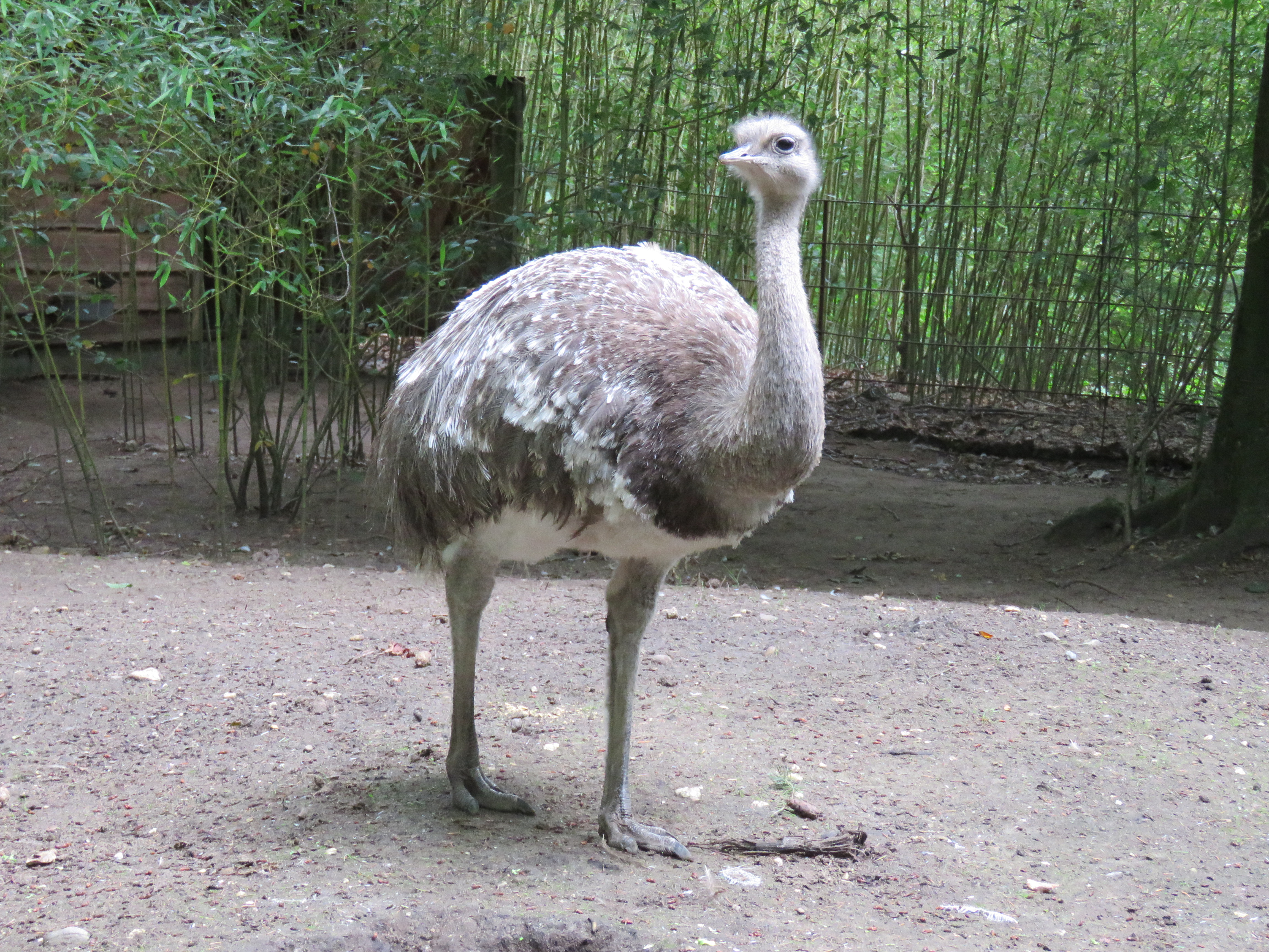 Darwin's rhea (Rhea pennata), Apenheul.